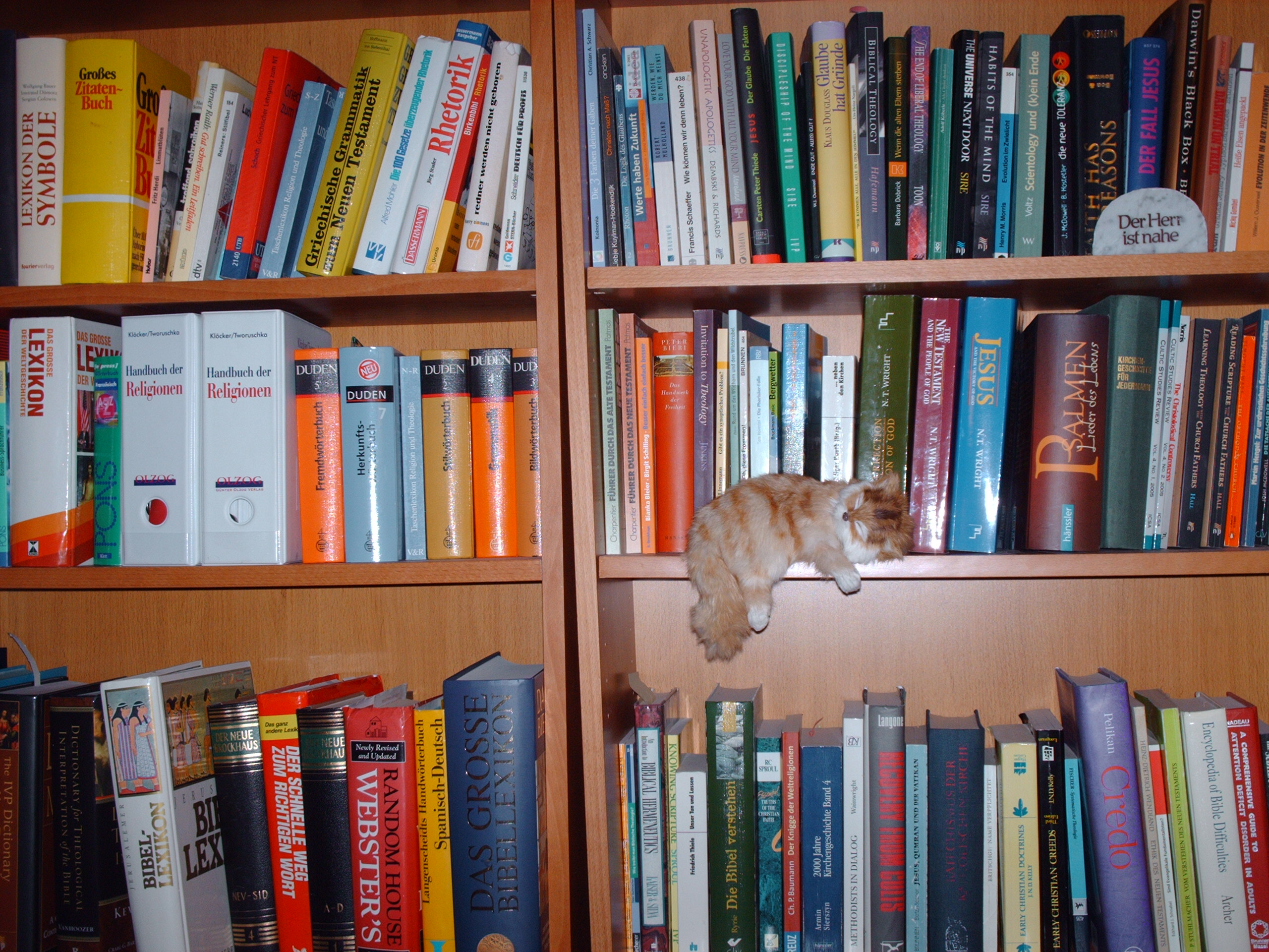 Bookshelf Picture taken December 2006 by Irmgard